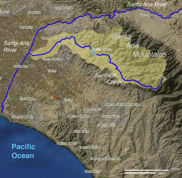 Topographic map of the Santiago Creek (and Santa Ana River) watersheds and surroundings in Orange County, California, USA